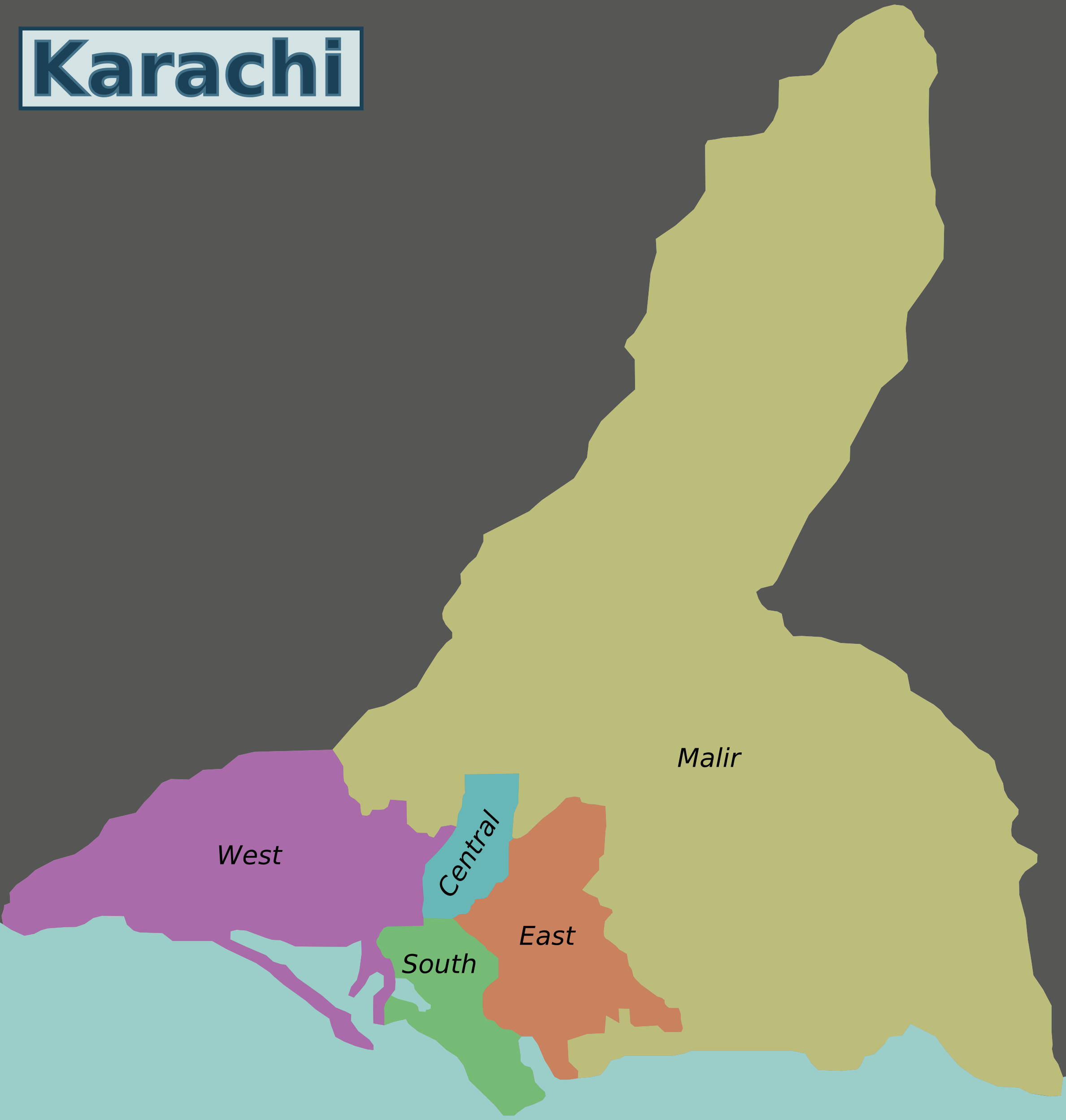 Map of Karachi.